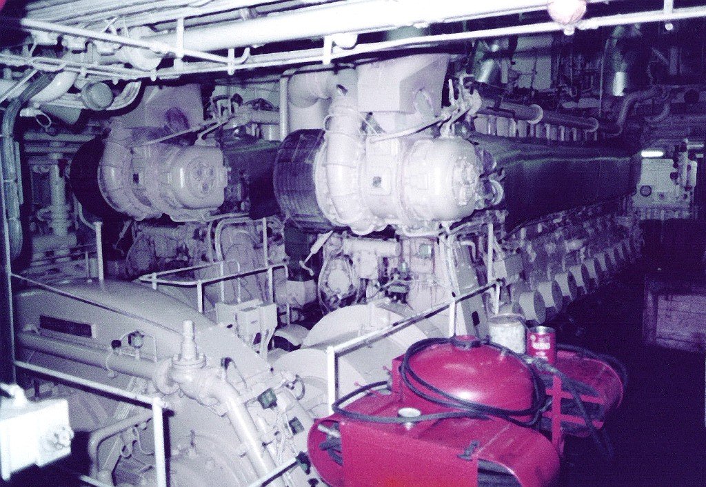 Two of the four medium speed diesel engines on board Island Princess ; Fiat C4210SS, 10 cylinders, 420mm bore, 500mm stroke, 4500HP each. Individually clutched and geared in pairs to each of the two propeller shafts.